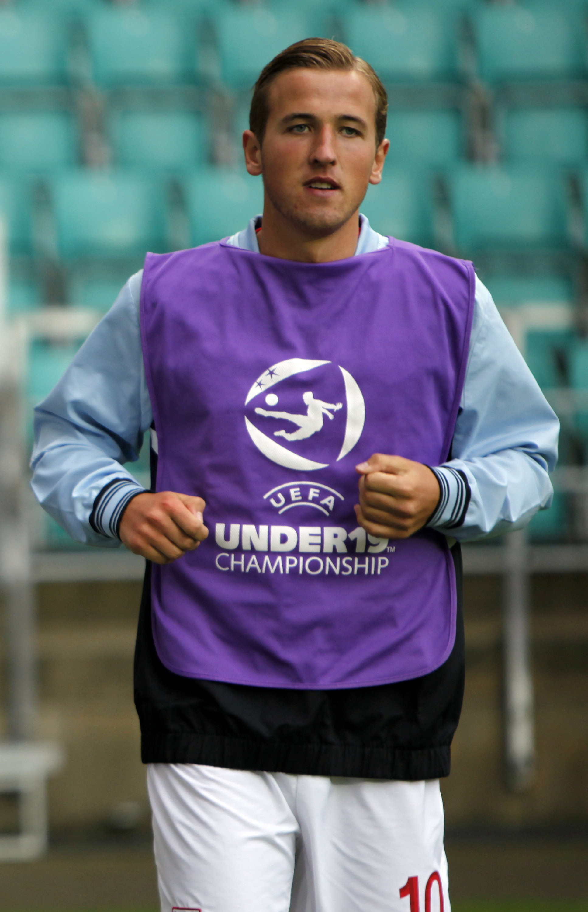 Conor Coady and Harry Kane during 2012 UEFA Euro U-19 in Estonia.